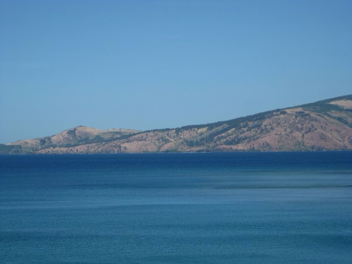 View of Redondo Peninsula Zambales from Anvaya Cove, Subic Bay Freeport Zone, Morong, Bataan, Philippines